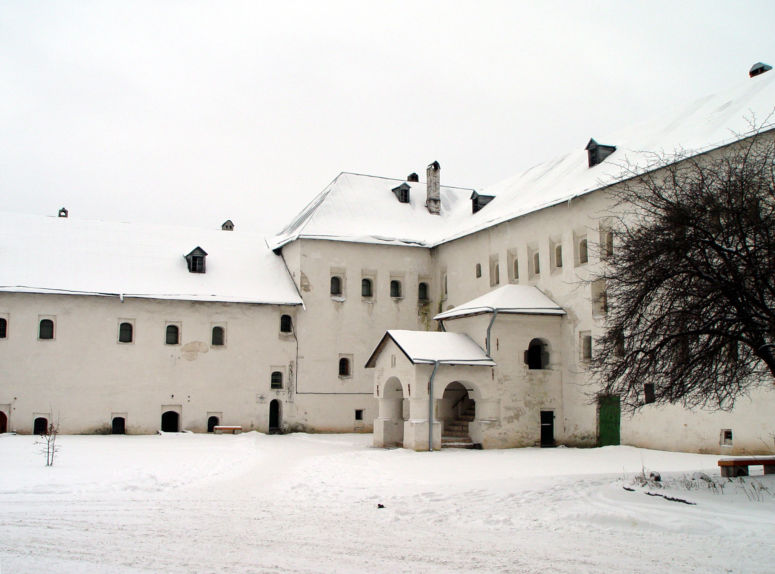 The 'Pogankini palati' building - Museum of Pskov